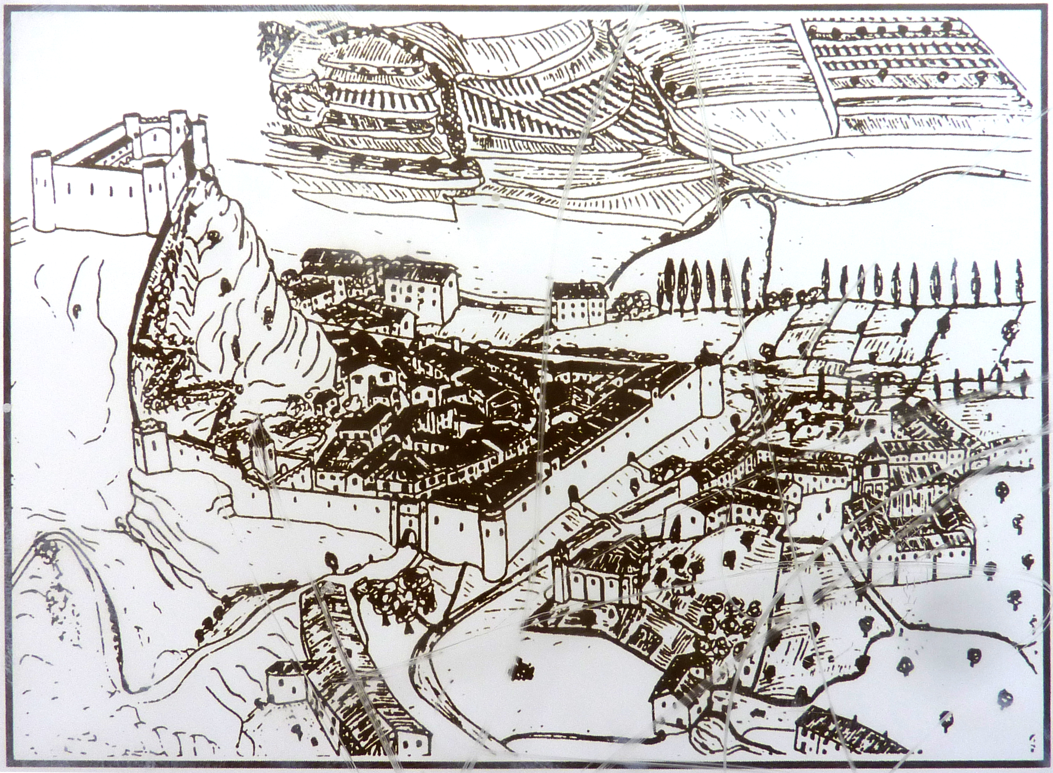 This is the only drawing we have of Meyrueis with its fortifications and castle on the Rock, early 16th century